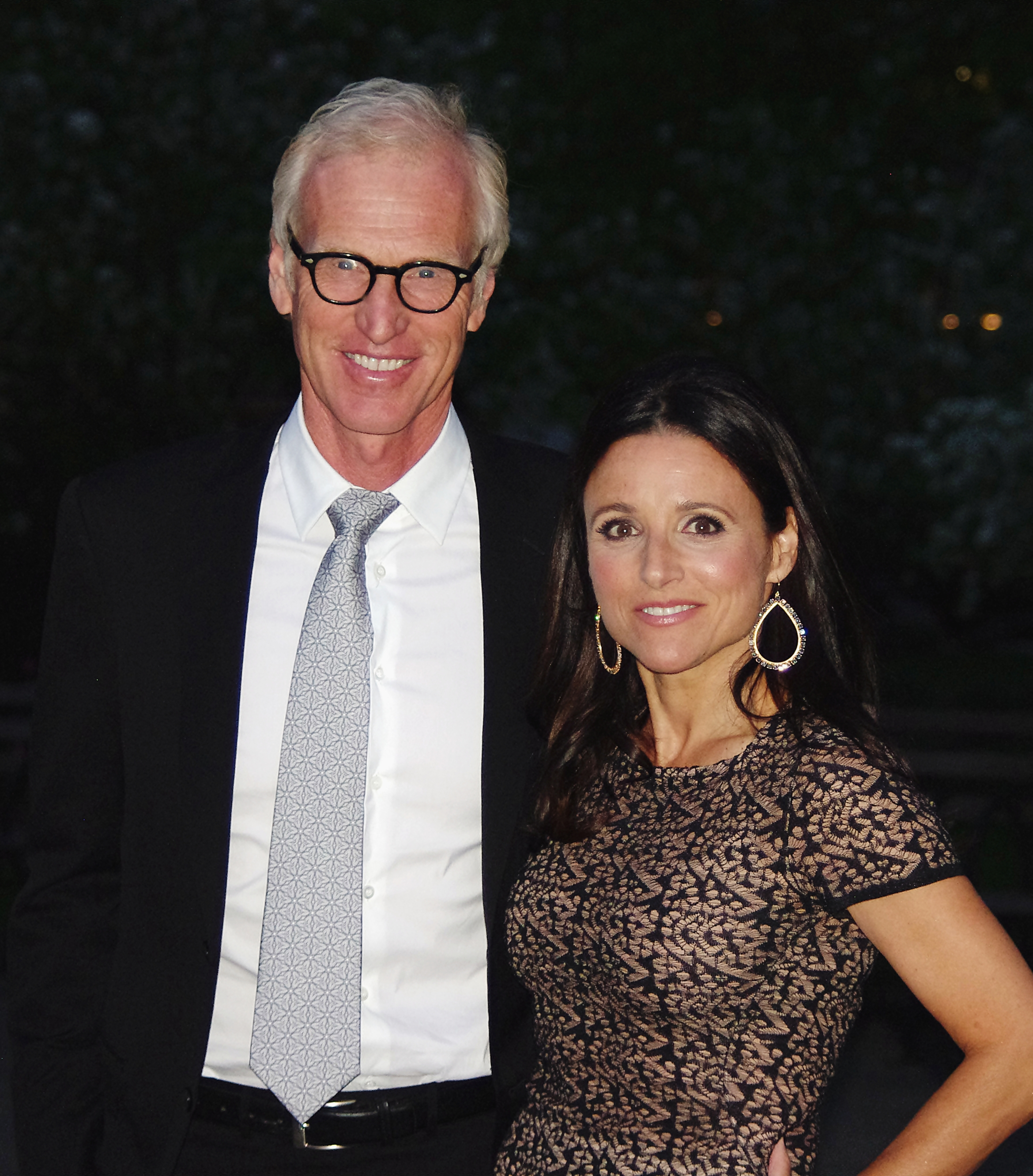 Brad Hall and Julia Louis-Dreyfus at the Vanity Fair party for the 2012 Tribeca Film Festival.